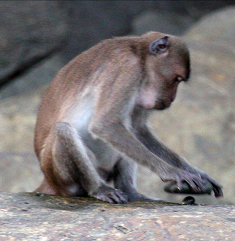 Macaca fascicularis aurea using a stone tool. Photo by Michael D. Gumert. Cropped from which is also available at File:Macaca fascicularis aurea stone tools - journal.pone.0072872.g002.png.